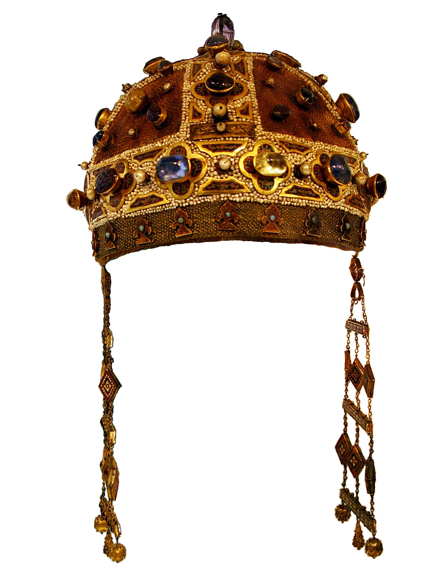 derivative version white background version of Crown of Constance of Aragon - Cathedral of Palermo - Italy 2015